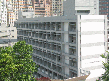 Saint Joseph's Primary School, Wan Chai, Hong Kong 粵語: 香港灣仔聖若瑟小學